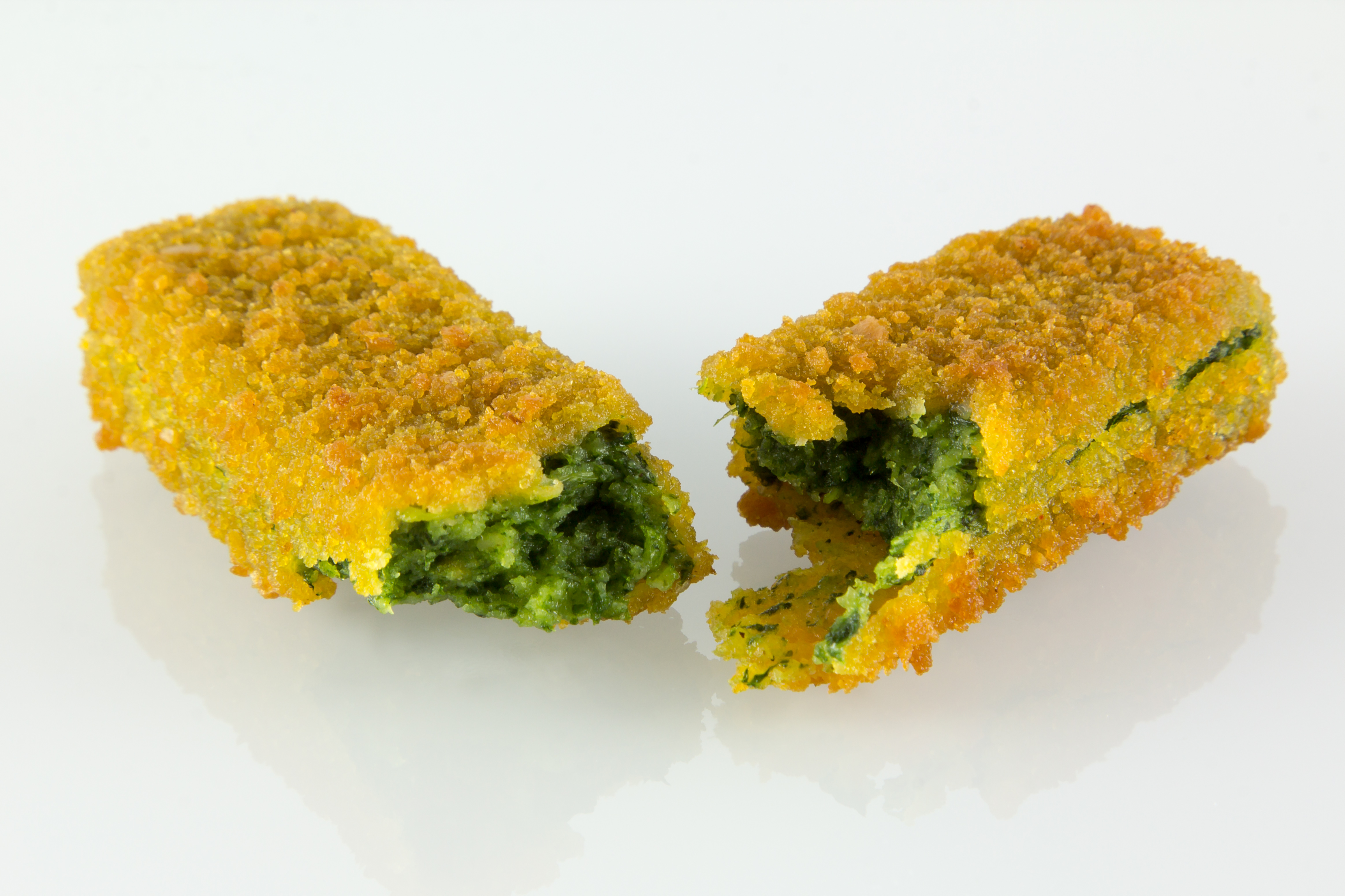 Spinach-finger, fried and broken up